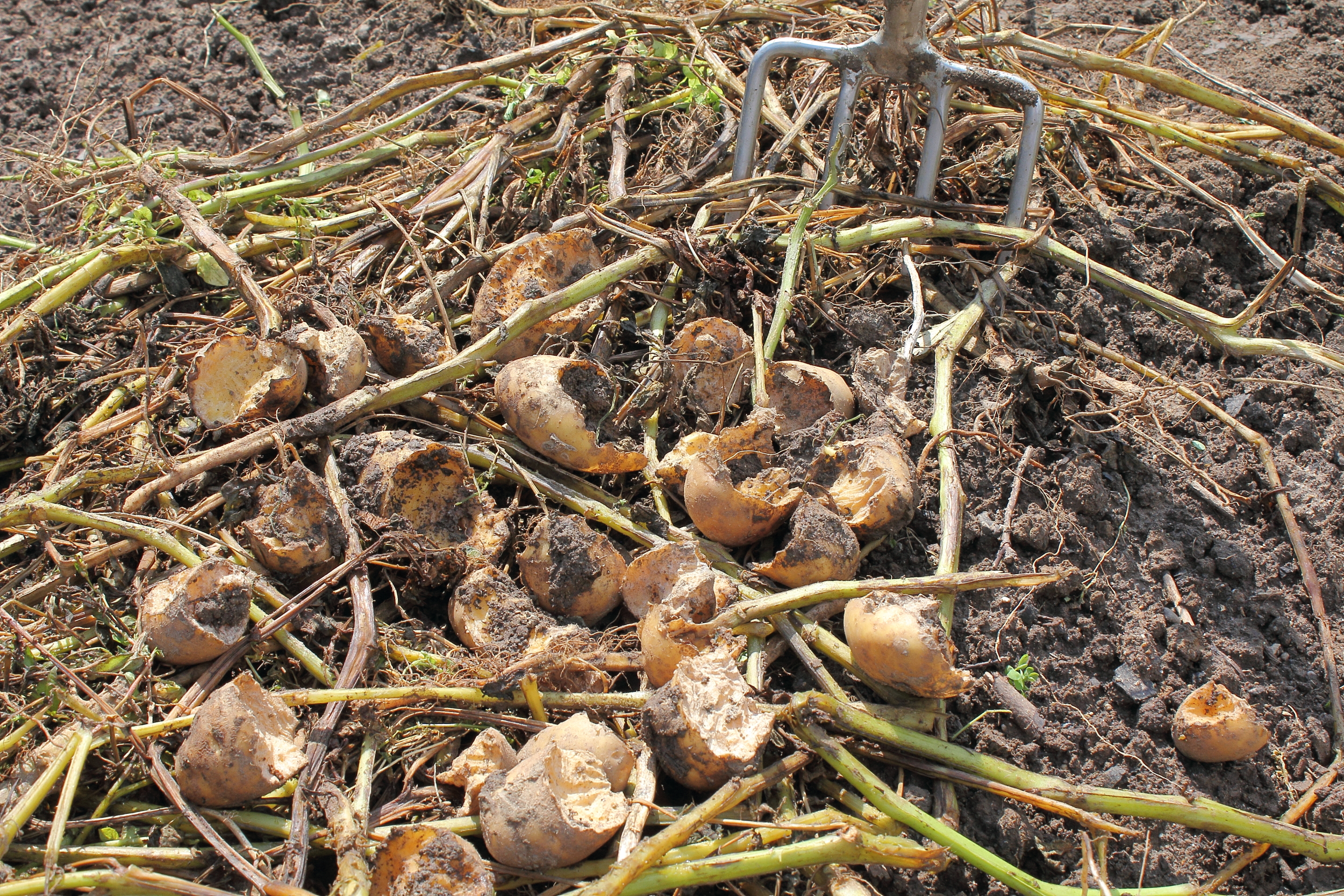 Potatoe harvest destroyed by voles (rodents) in private garden.